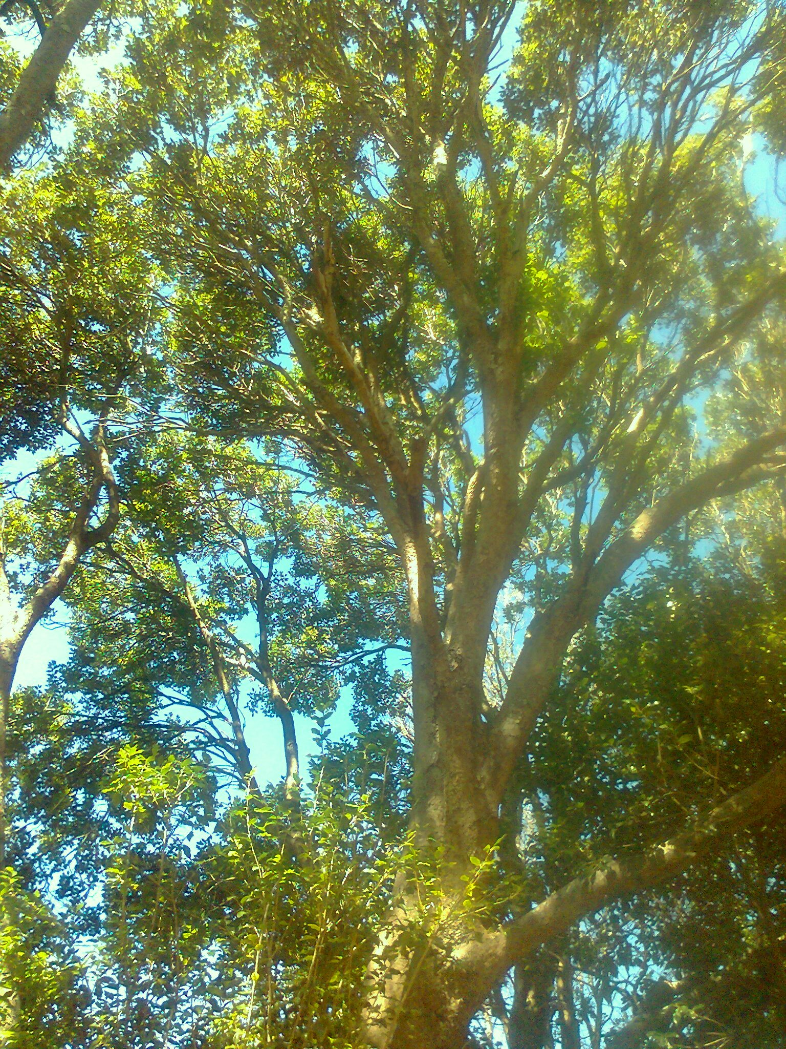 Scolopia mundii - indigenous Red Pear Tree - Cape Town